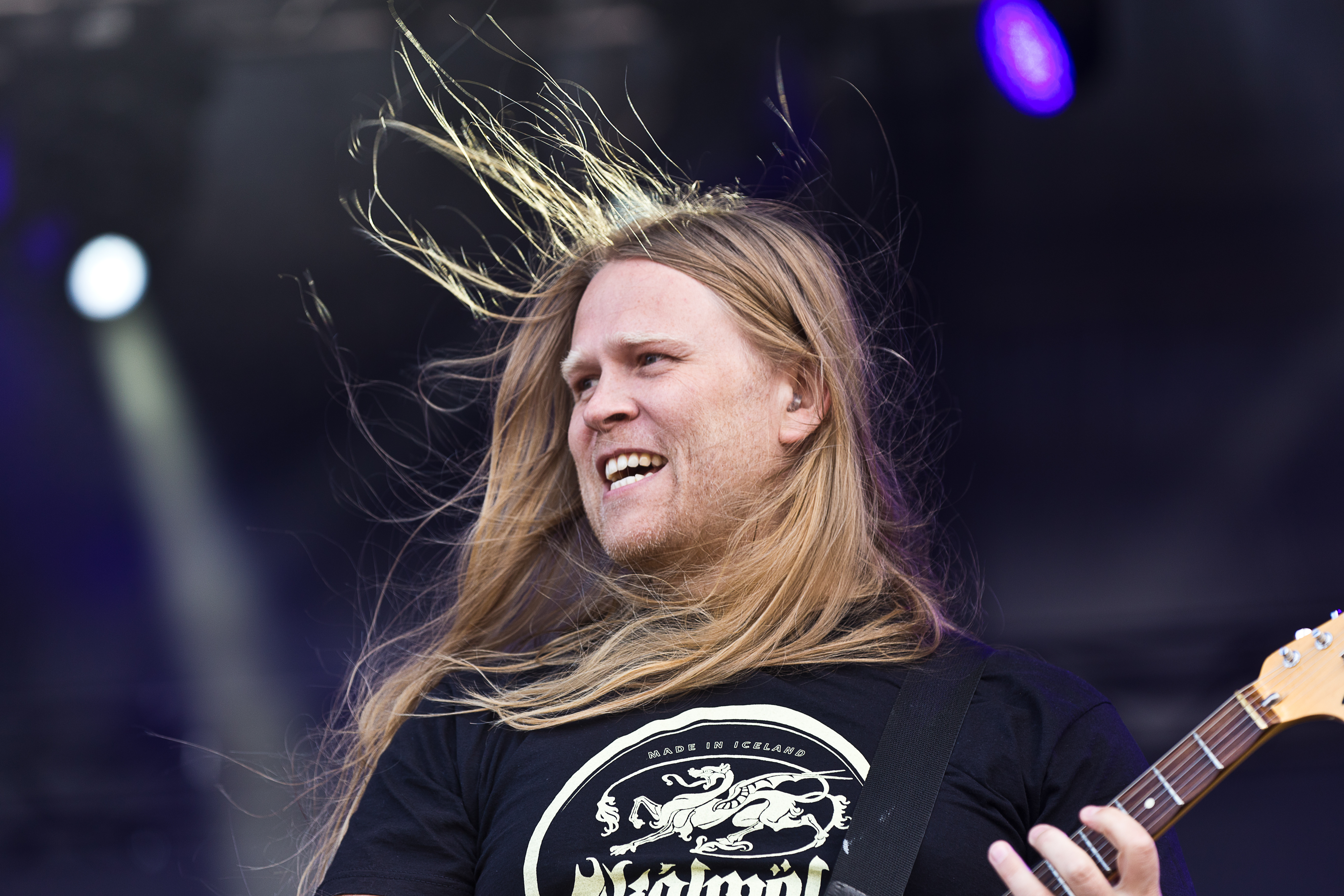 The Islandic viking metal band Skálmöld at the Rockharz Open Air 2015 in Ballenstedt/Germany.